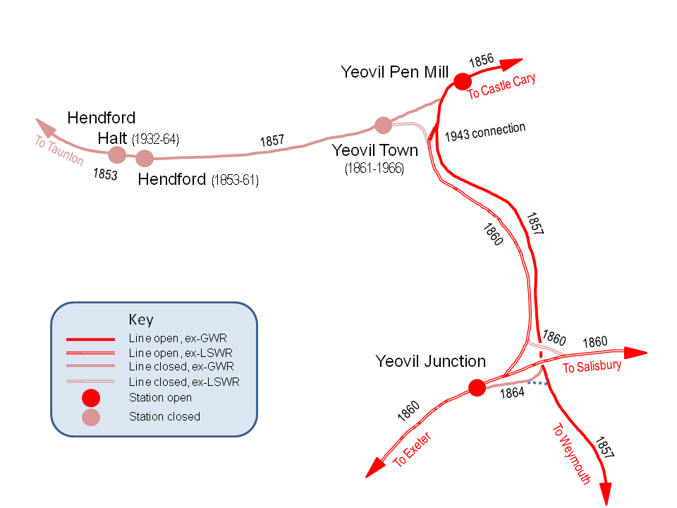 A diagram showing the railways around Yeovil, Somerset, England.